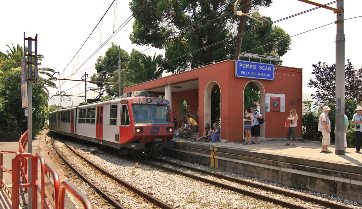 Train stopping at Pompei Scavi.